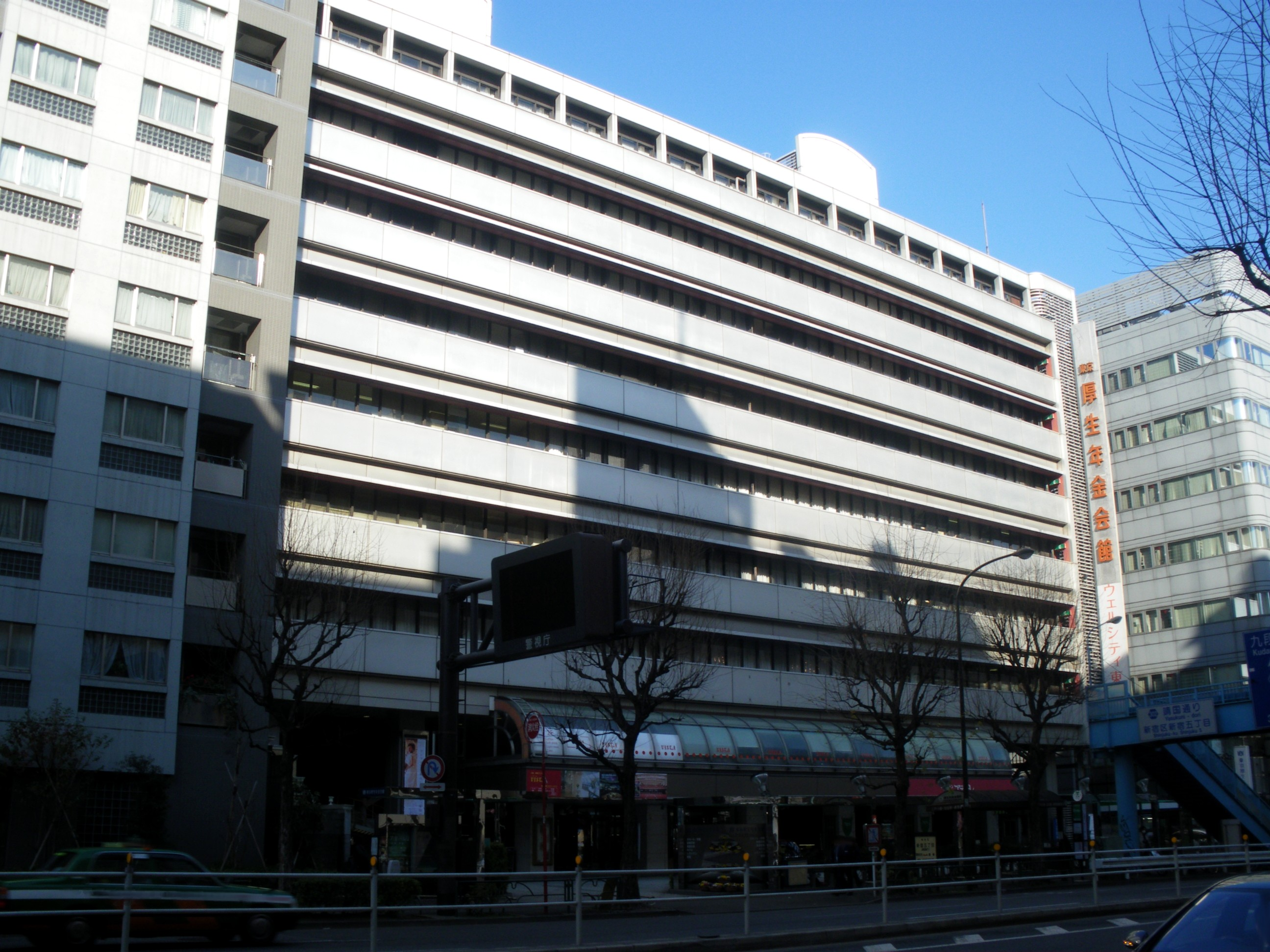 A photo of Tokyo Kosei Nenkin Kaikan (Welcity Tokyo), Shinjuku, Shinjuku-ku, Tokyo, Japan.